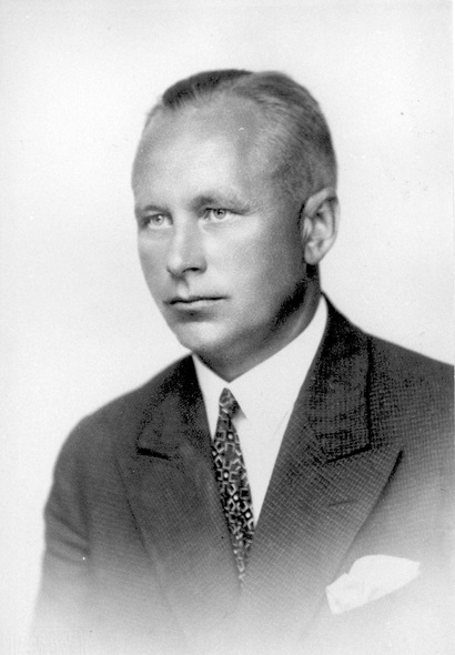 Former Estonian prime minister Otto Tief (1889–1976)